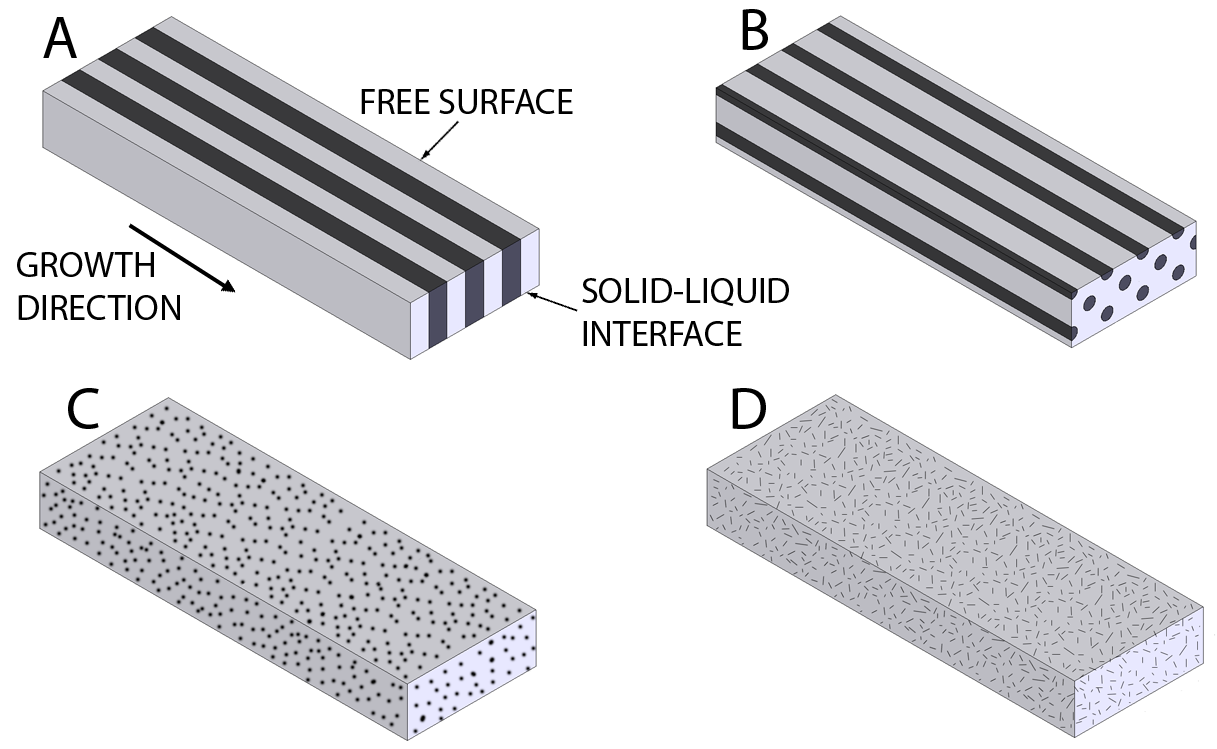 Four possible eutectic structures: A) lamellar B) rod-like C) globular D) acicular. Based on an image from page 333 of Smith, William F.; Hashemi, Javad (2006). Foundations of Materials Science and Engineering (4th ed.). McGraw-Hill. ISBN 0-07-295358-6.